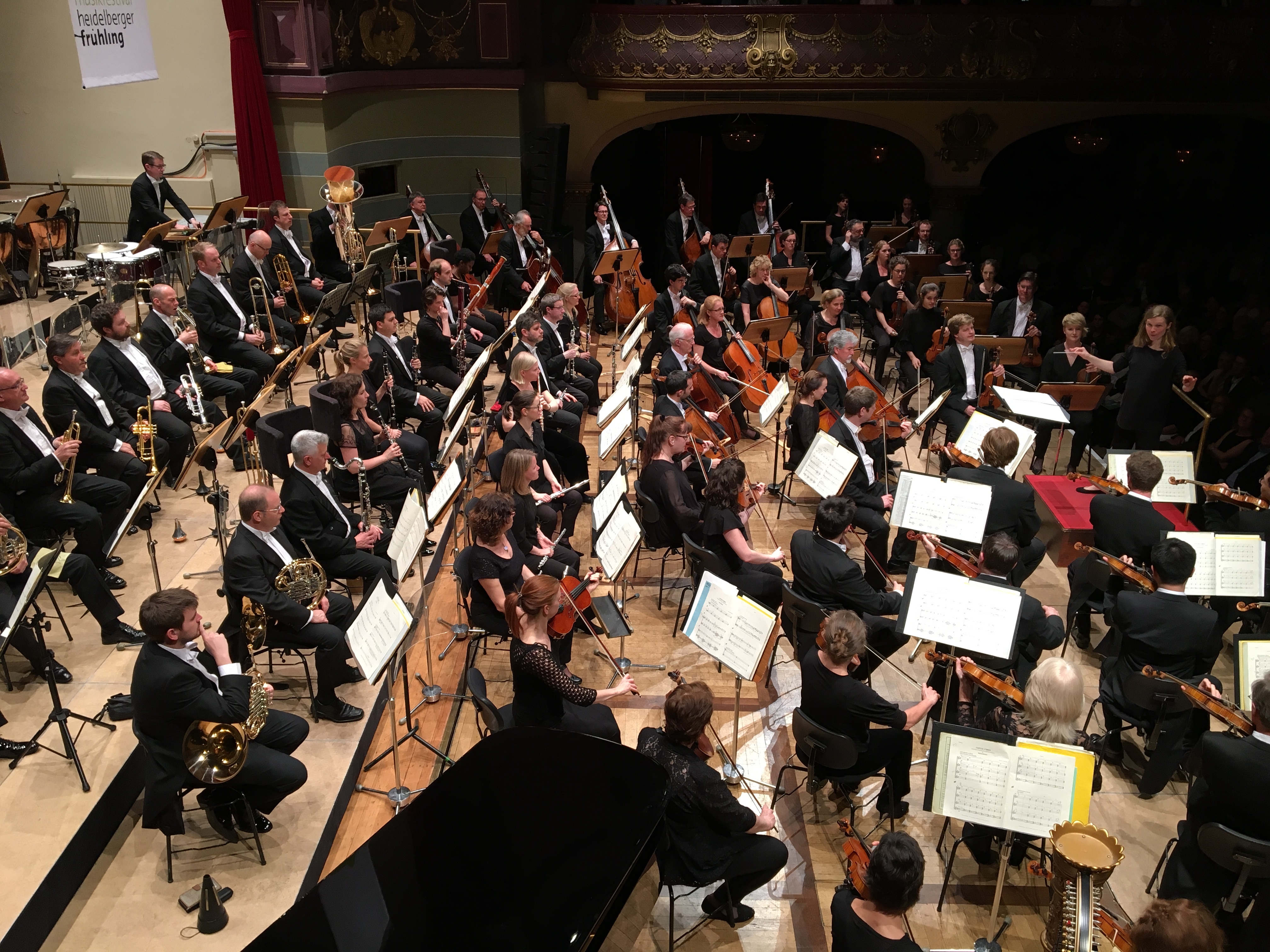 Lithuanian conductor Mirga Gražinytė-Tyla ant the City of Birmingham Symphony Orchestra in Heidelberg 2018